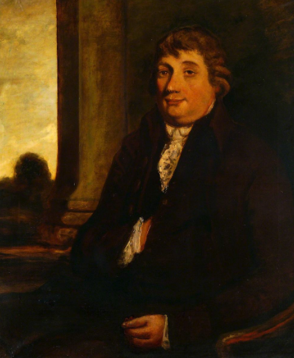 Portrait English gentleman with pillat and tree in the background